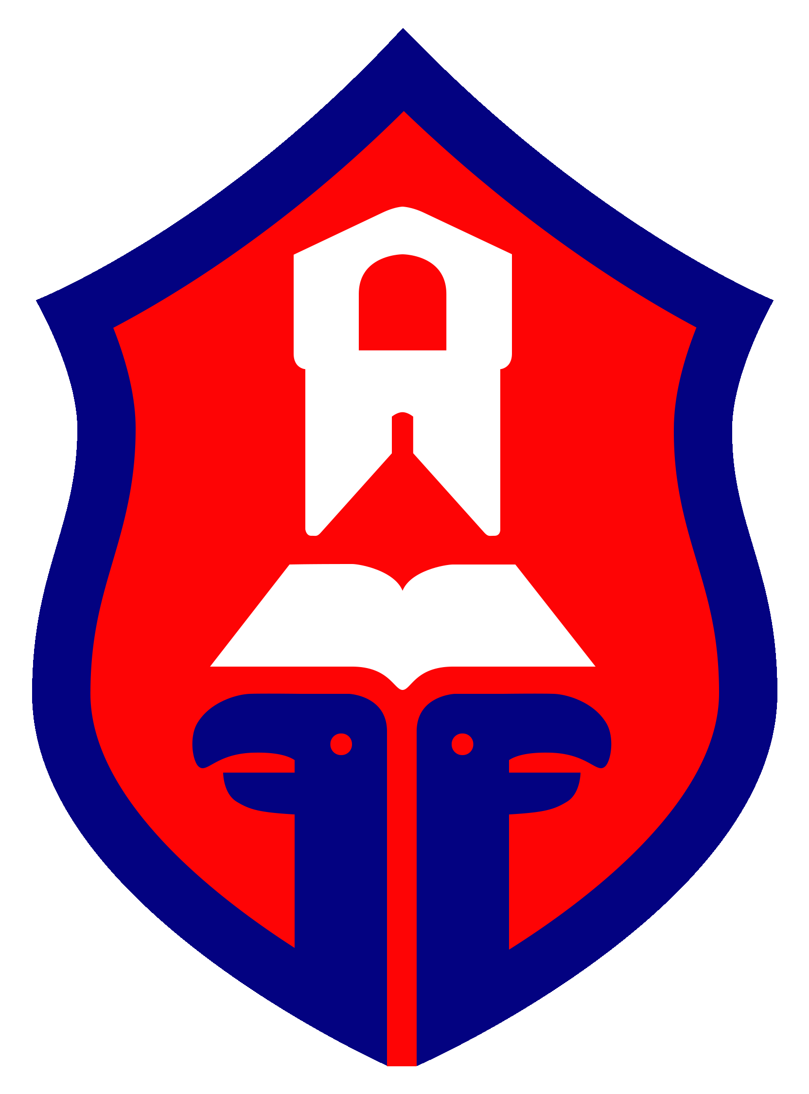 Coat-of-arms of Cetinje (Montenegro)